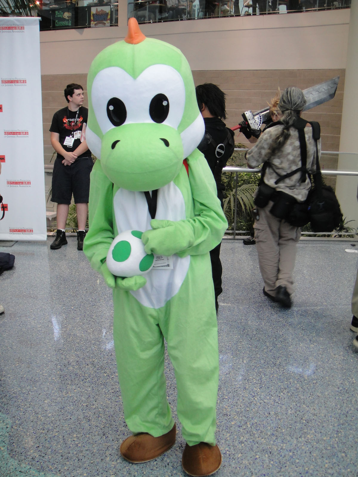 photo 2011 taken by Doug Kline If you're interested in higher resolution versions of my images, contact me via my profile page.